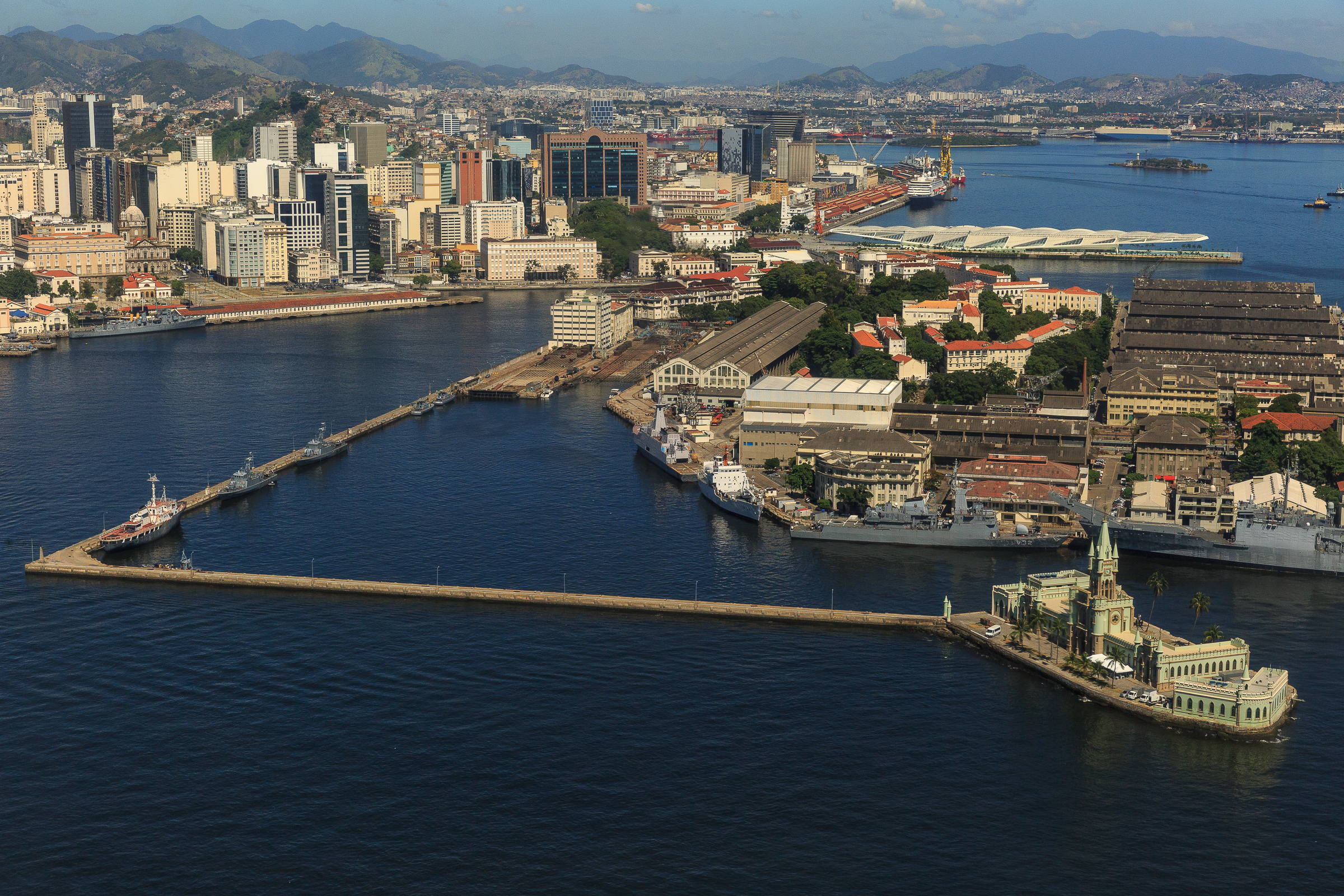 Antiga Ilha Fiscal localizada na cidade do Rio de Janeiro